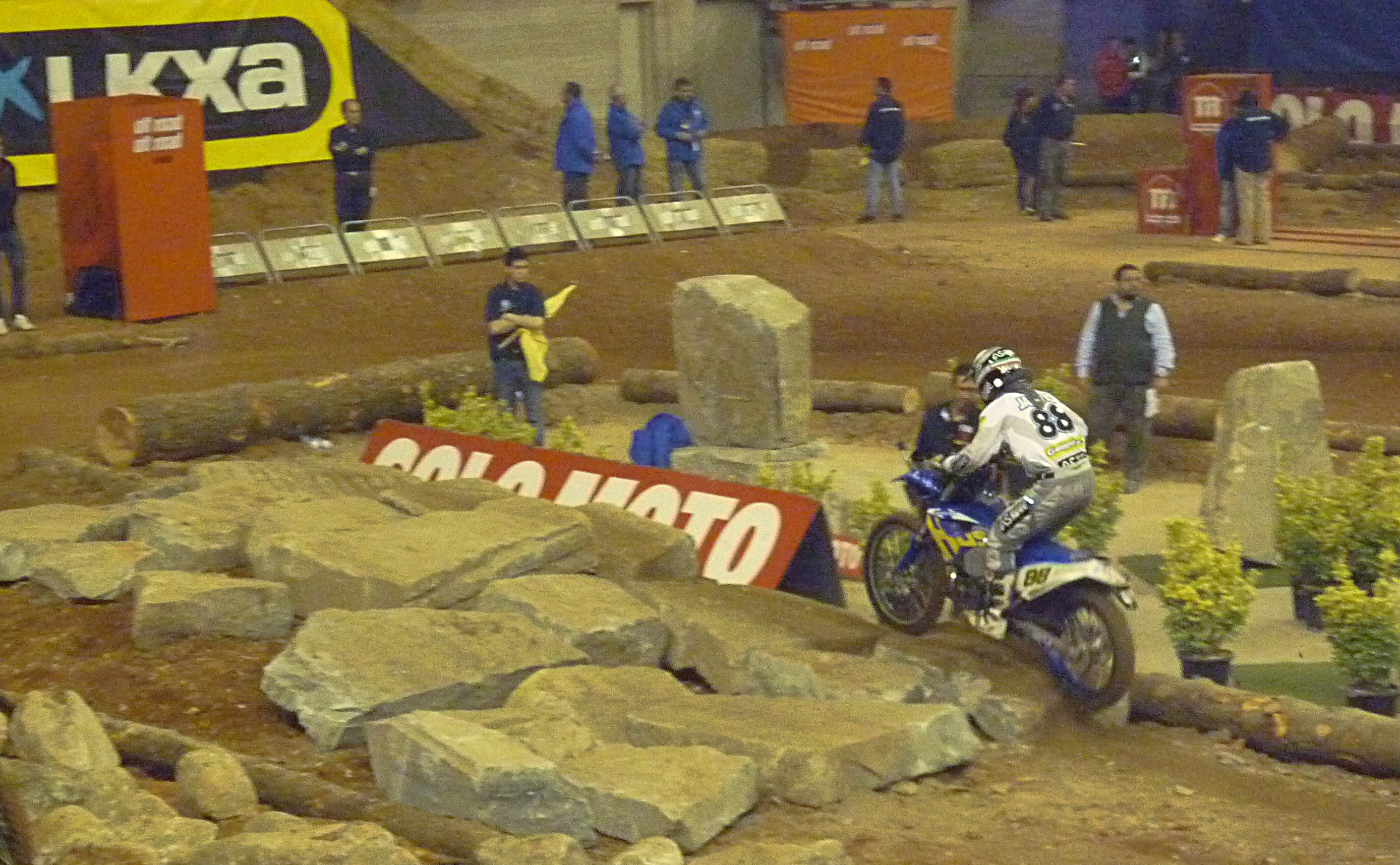 see original image for details. image cropped and colours corrected